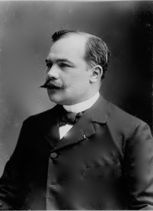 René Vallery-Radot